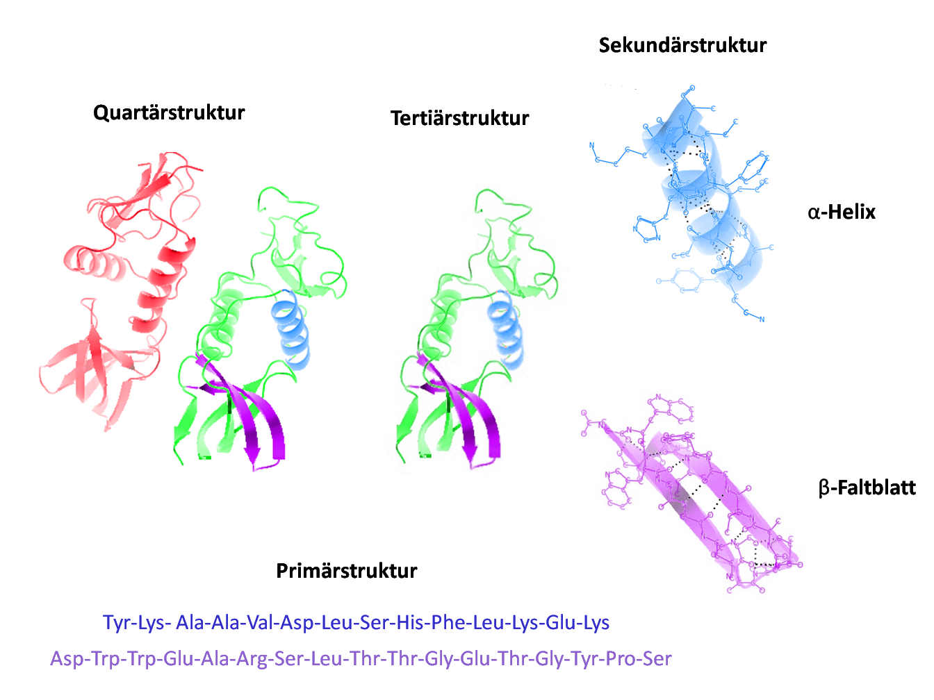 Faltung des Proteins 1EFN